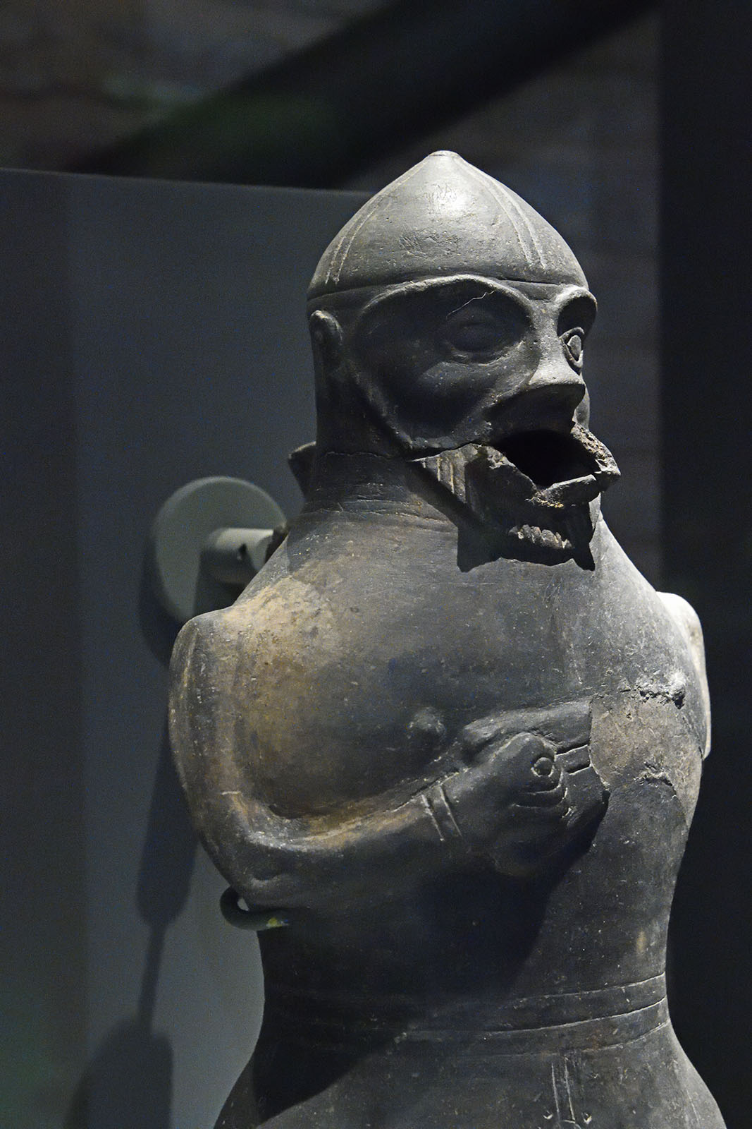 No further information was supplied in the showcase.